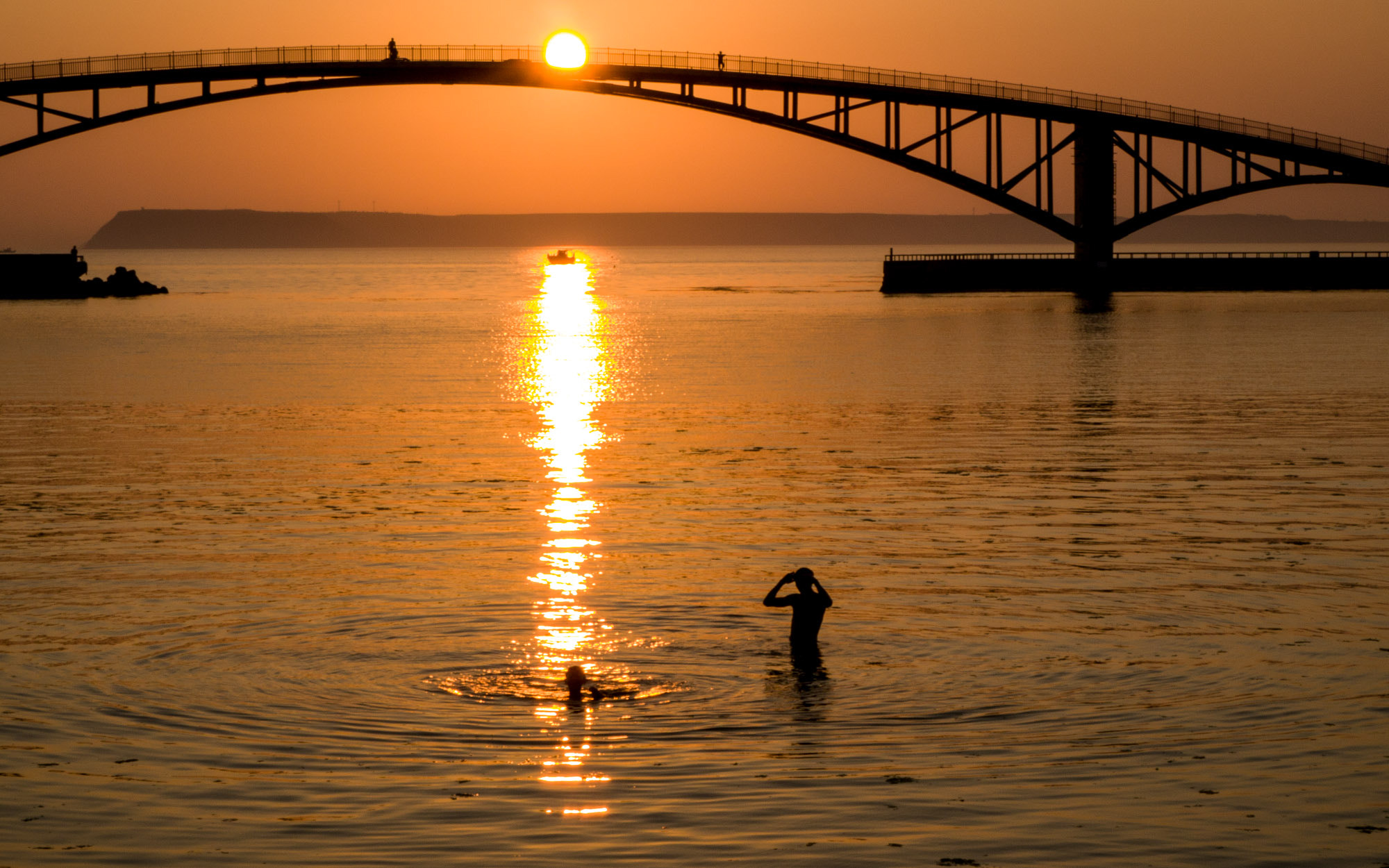 500px provided description: Father and son are swimming in sea water of Magong Guanyinting Recreation Area. [#sunset ,#family ,#penghu ,#Taiwan ,#Magong Guanyinting Recreation Area]